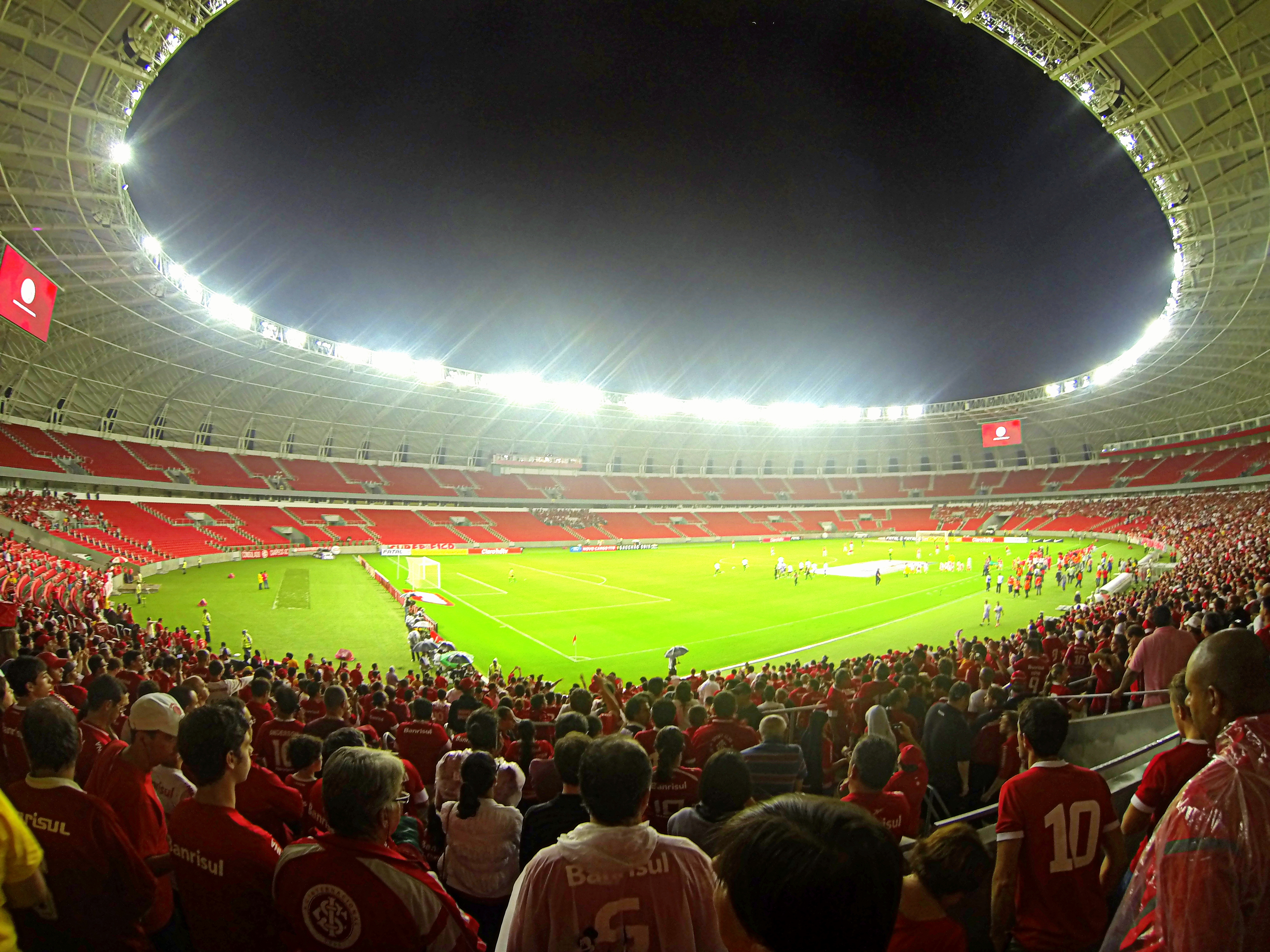 Porto Alegre, RS, Brazil